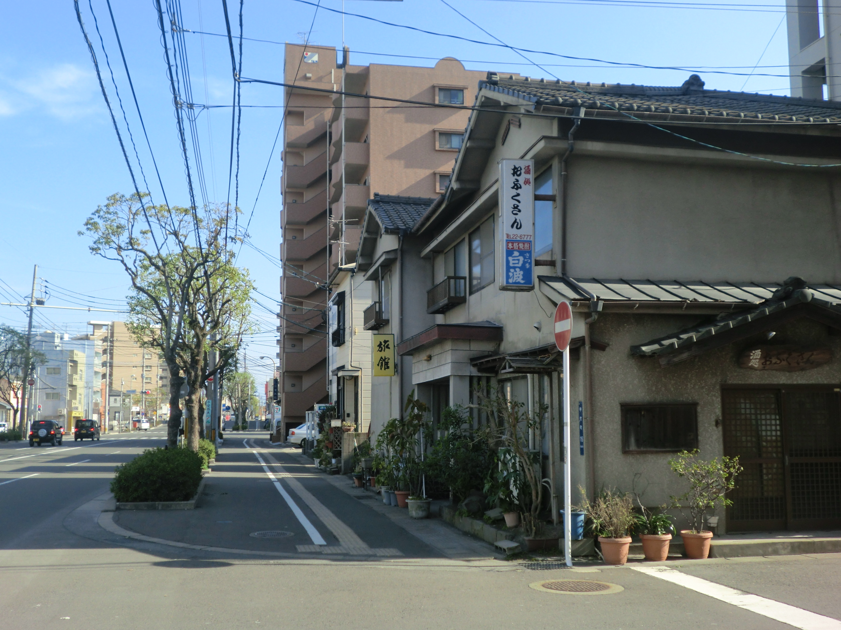 Townscape of Kotsuki-Cho area in Kagoshima, Kagoshima, Japan.